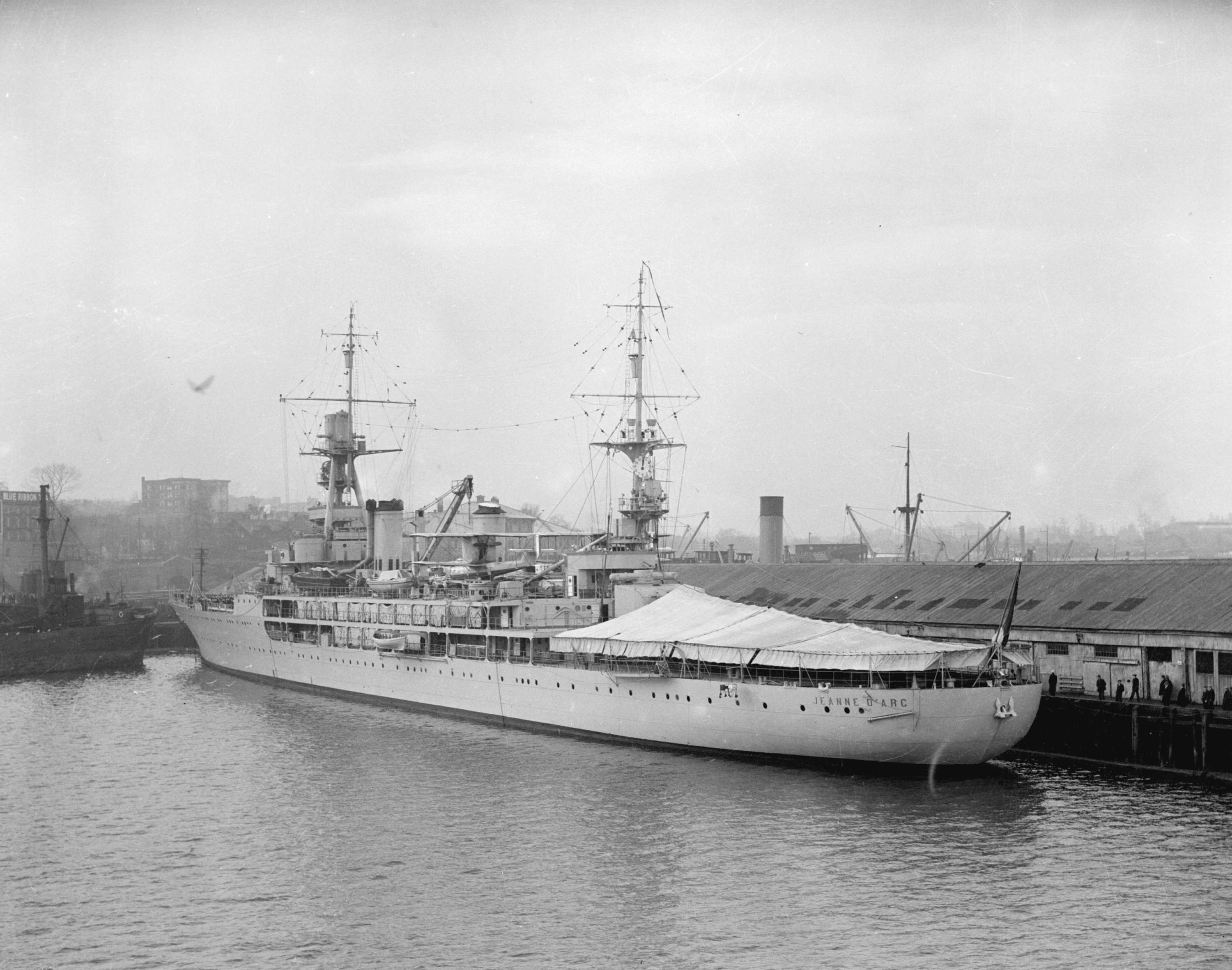 French cruiser Jeanne d'Arc (1930) at Vancouver.